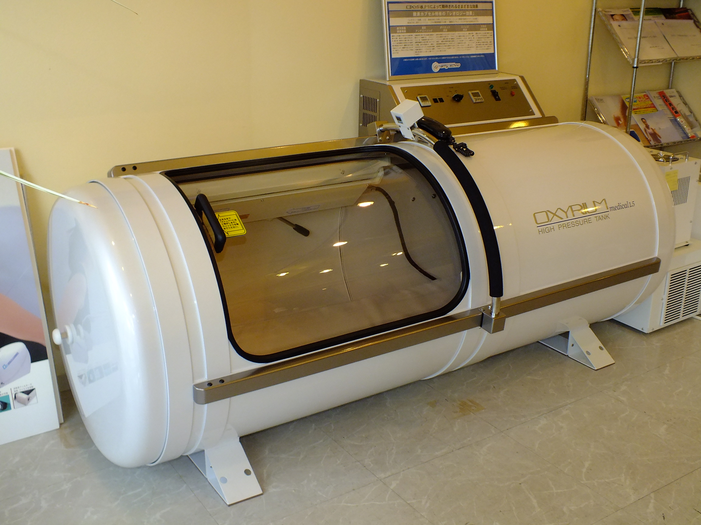 High Pressure Tank OXYRIUM medical 1.5 オキシリウム メディカル1.5 酸素カプセル「オキシリウムメディカル1.5」 鍼灸接骨院・医療機関・プロ向け 神戸メディケア Kobe Medi-care Co.Ltd